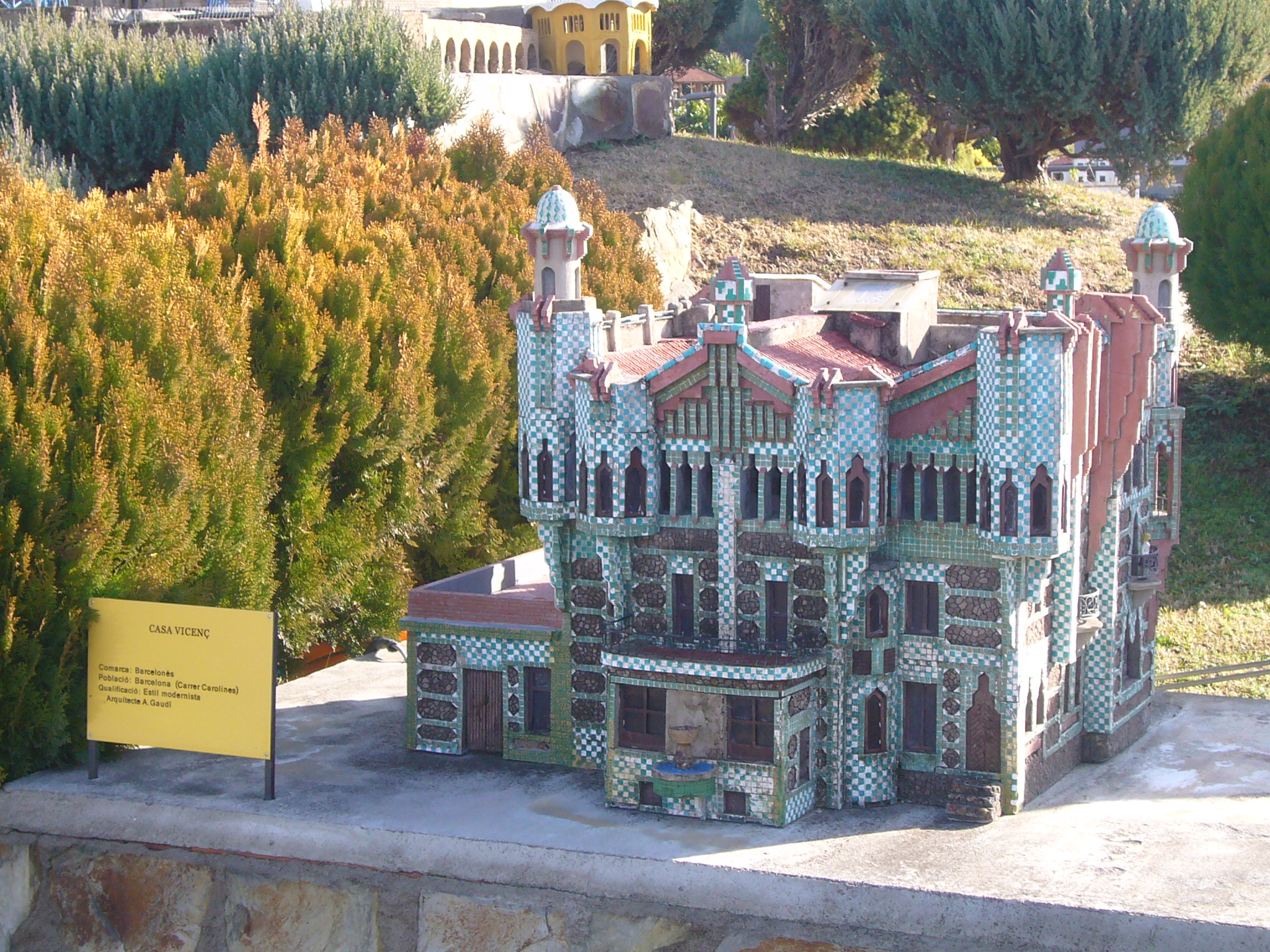 Scale model at the "Catalunya en Miniatura" miniature park : Casa Vicens